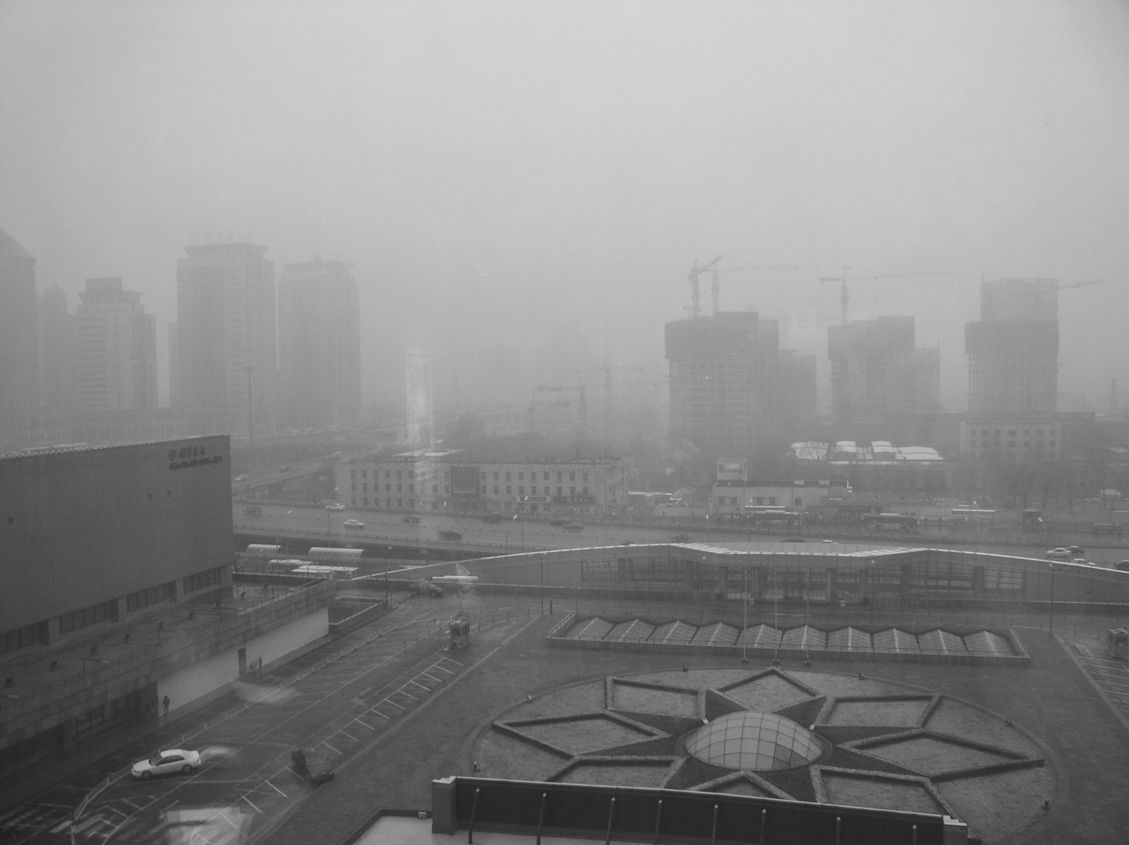 Beijing smog as seen from the China World Hotel, March 2003, during the SARS outbreak.